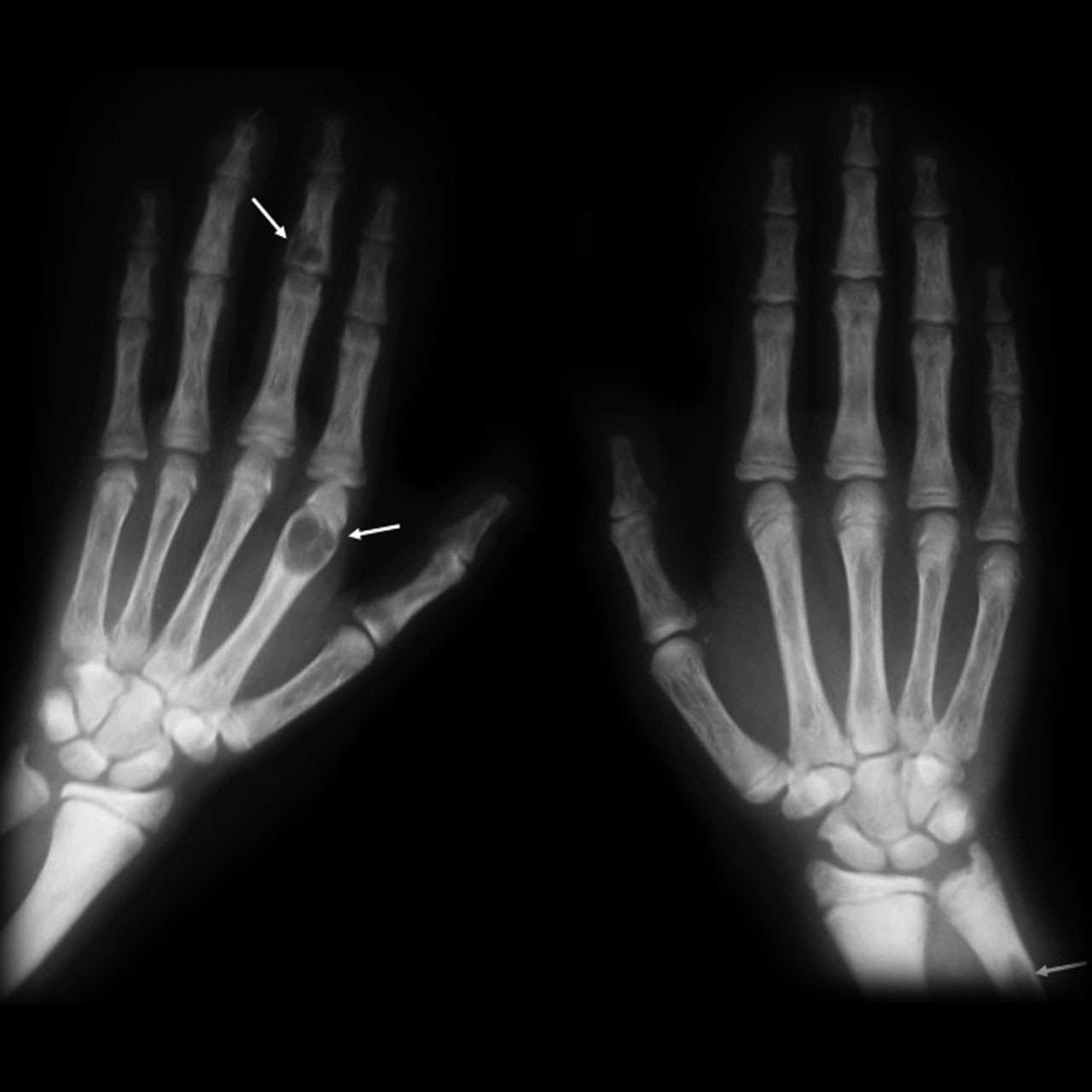 Brown tumours of the hands in a patient with hyperparathyroidism. Image from case here